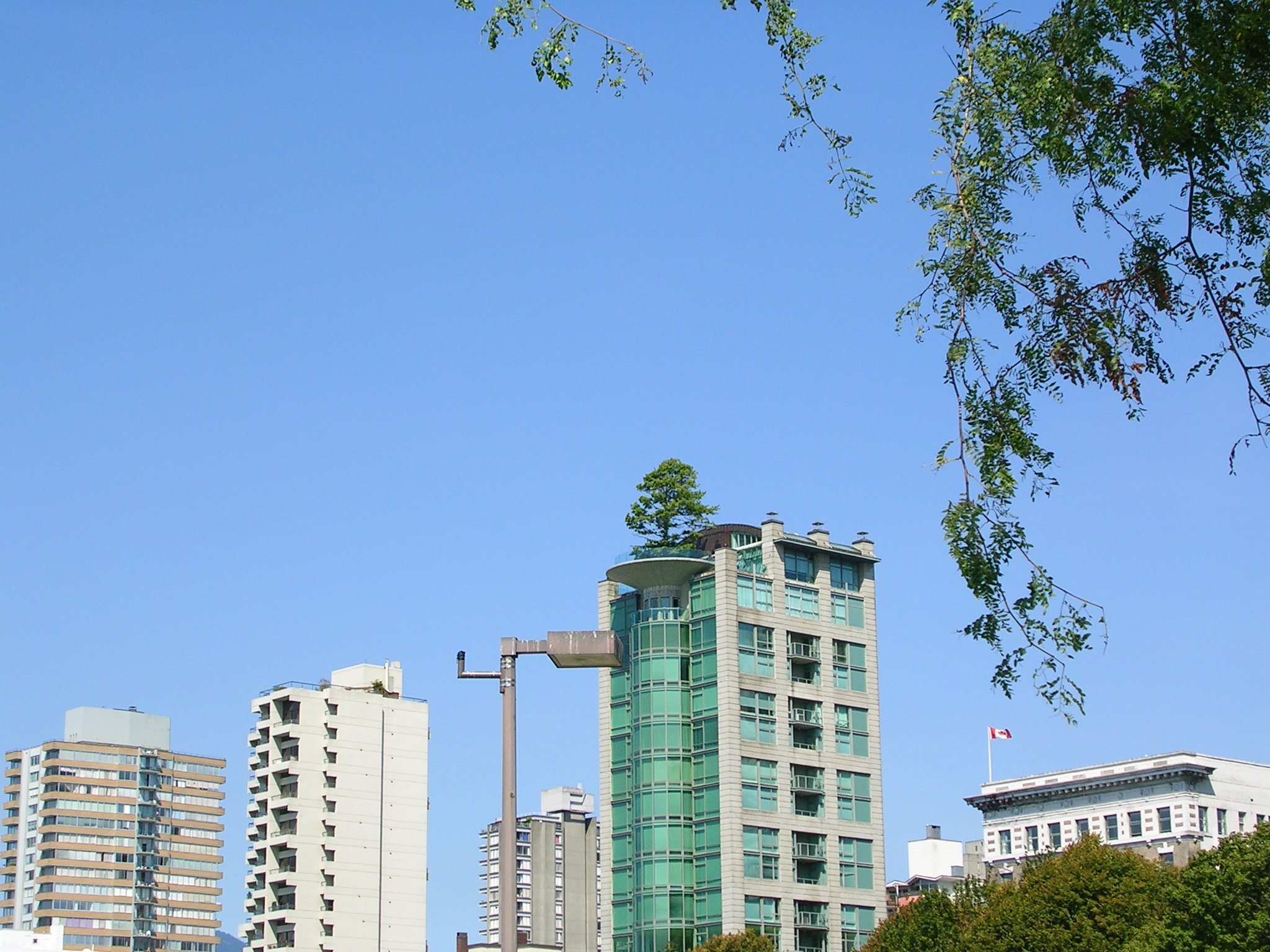 An extreme example of a roof garden, in Vancouver, British Columbia.